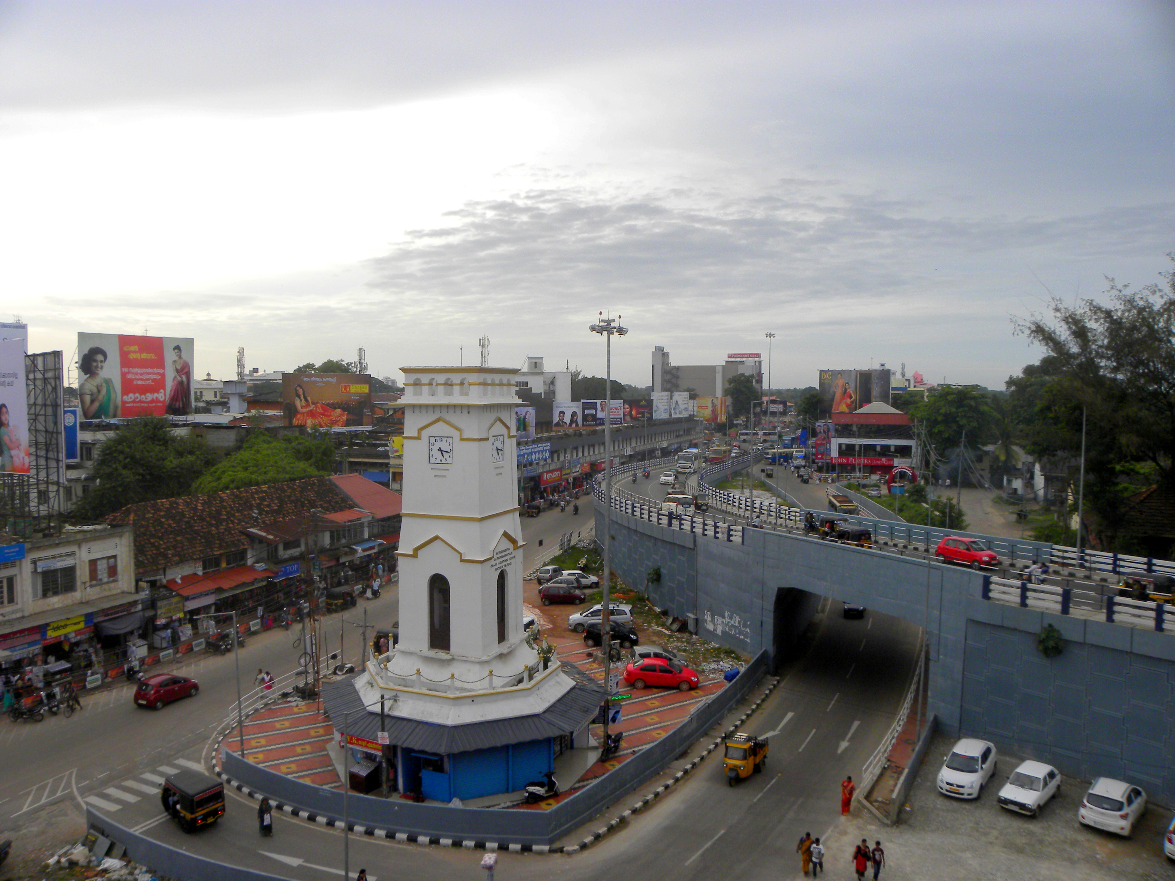 Chinnakada is the heart of Quilon city in India